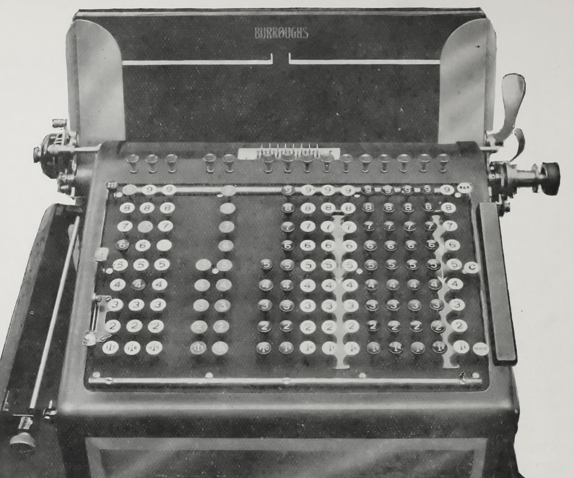 Keyboard of the Burroughs Machine used as a Difference Engine in the H.M. Nautical Almanac Office.